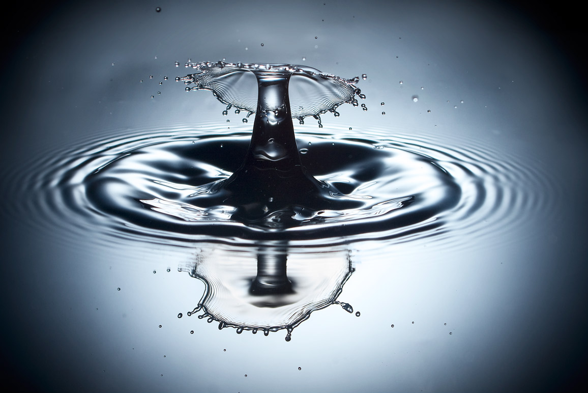 Collision of two water drops.